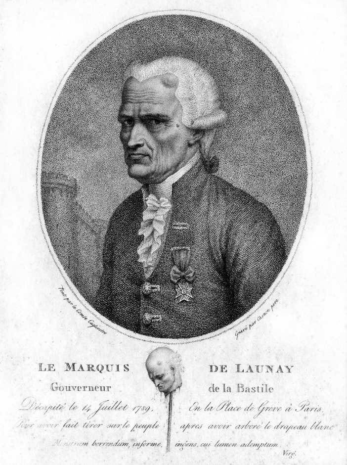 Portrait of the Marquess of Launay, who was governor of the Bastille. That day(14 July 1789), He was killed by the furious crowd. After the killing, his head was sawn off, and was fixed on a pike to be carried through the streets.